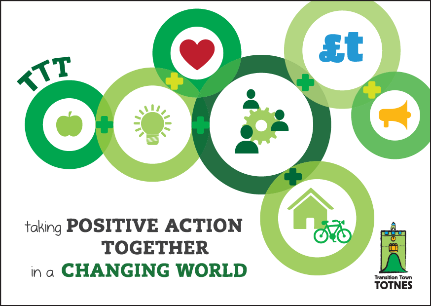 Produce by Wordsmith One.